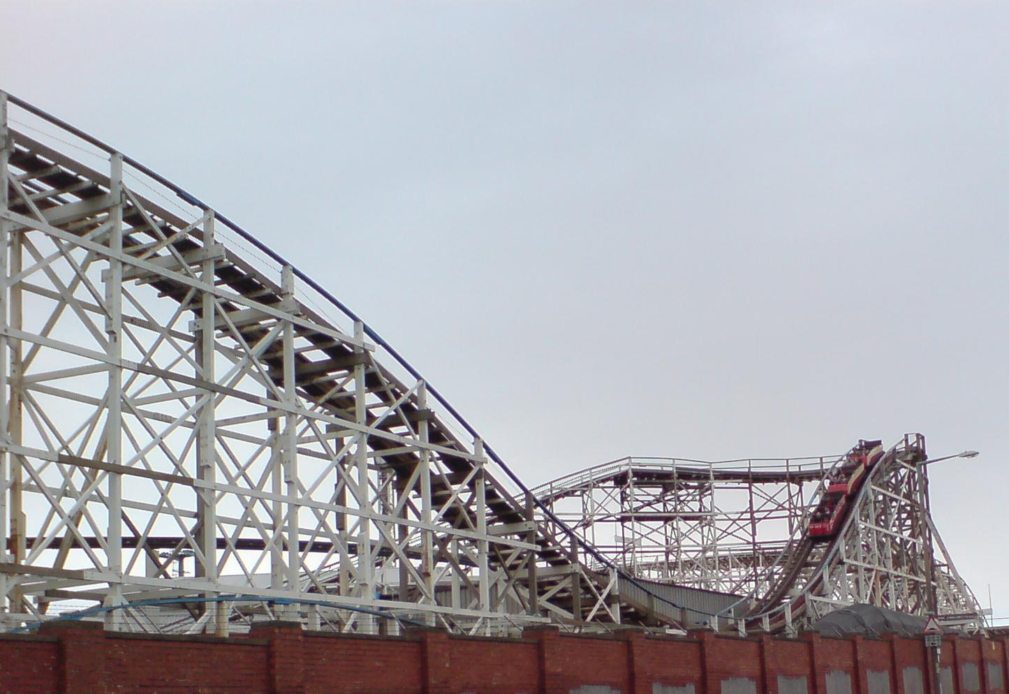 Blackpool Pleasure Beach - Rollercoaster